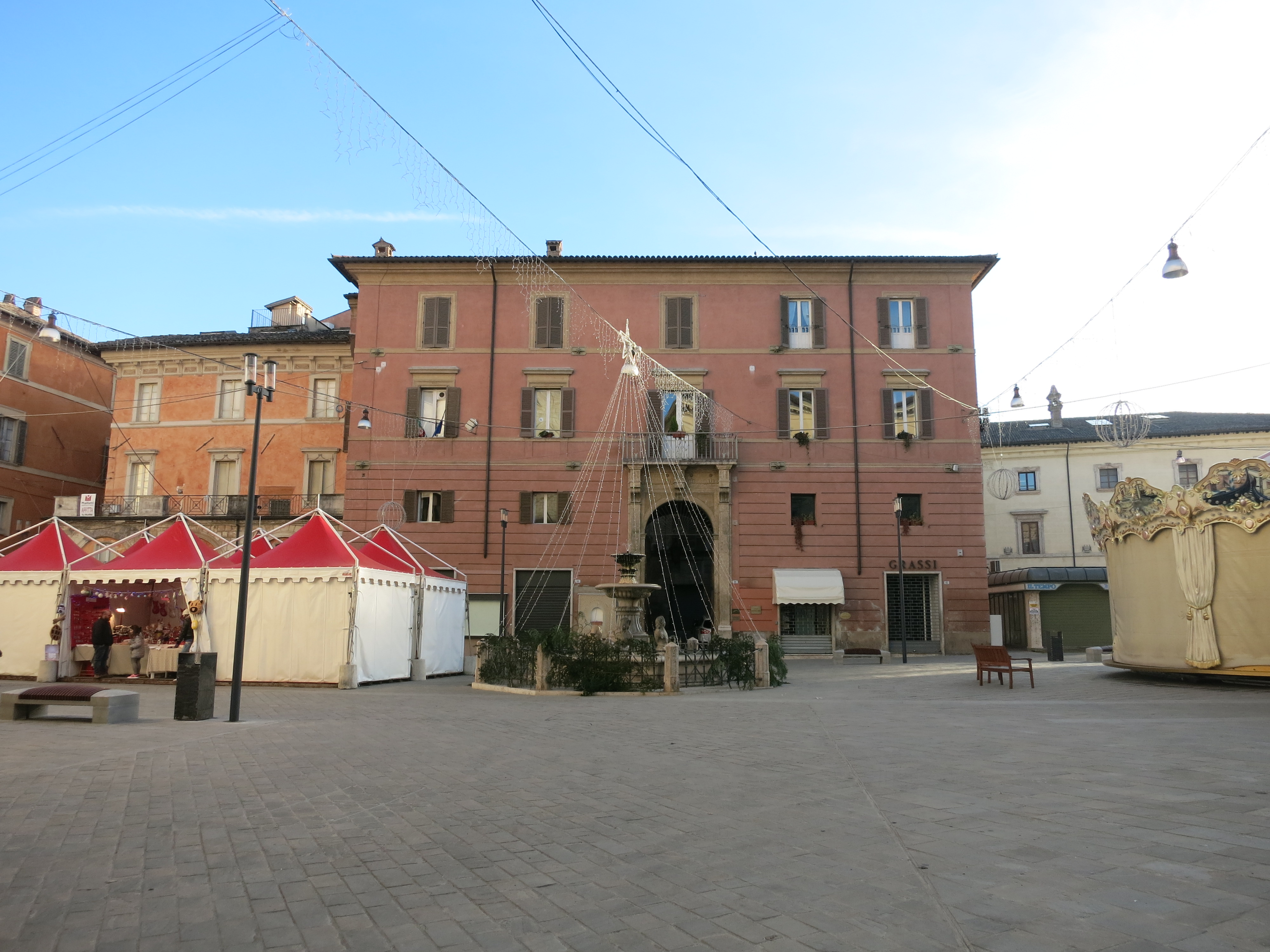 Blasetti Palace - Rieti, Lazio, Italy